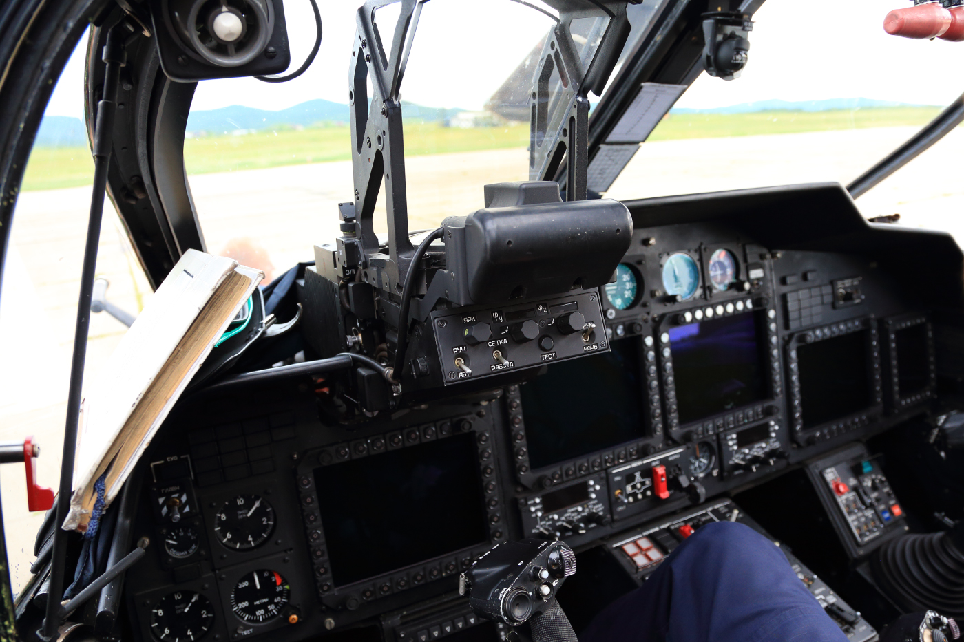 Cockpit of Kamov Ka-52